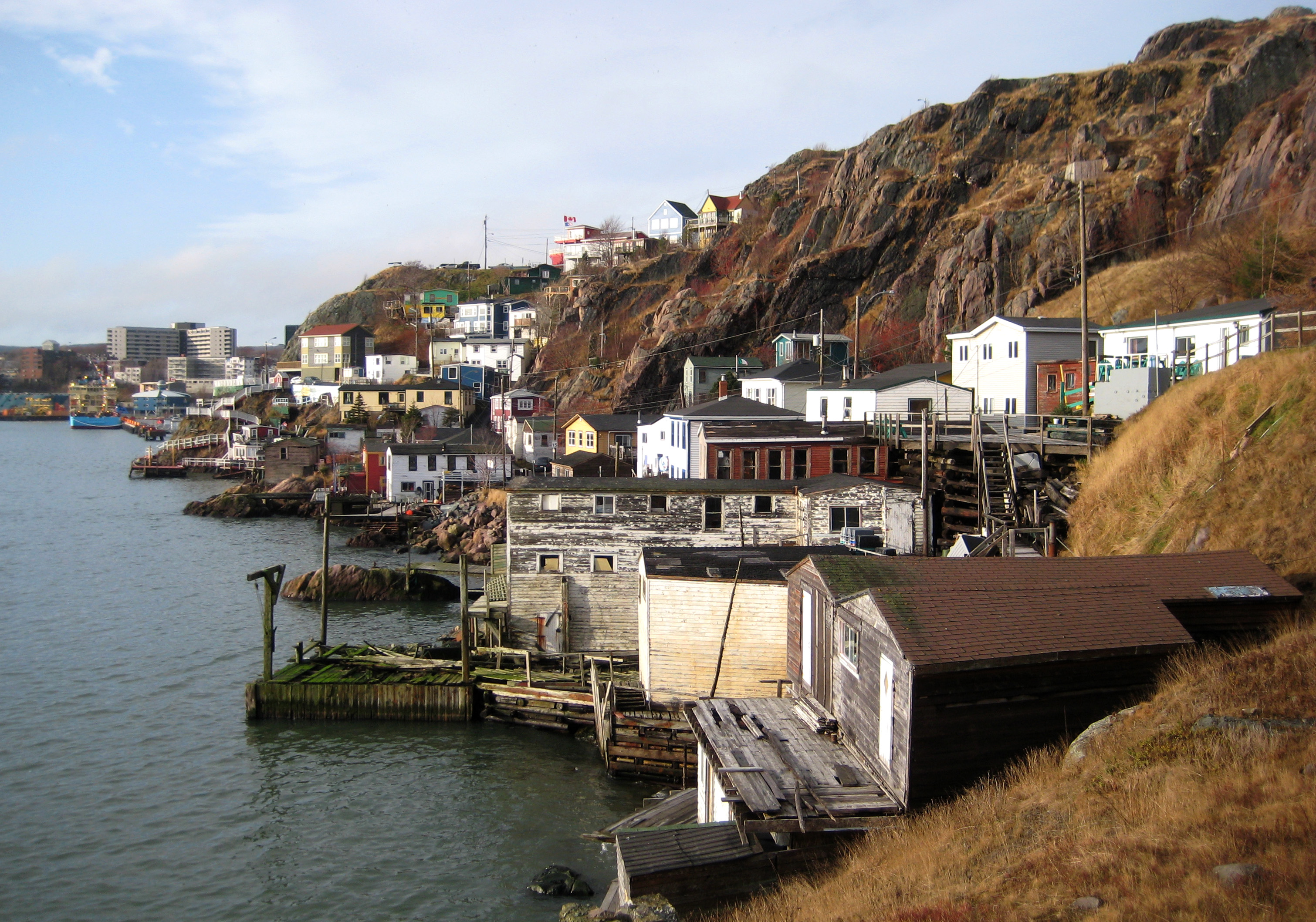 View of The Battery in St John's, Newfoundland.